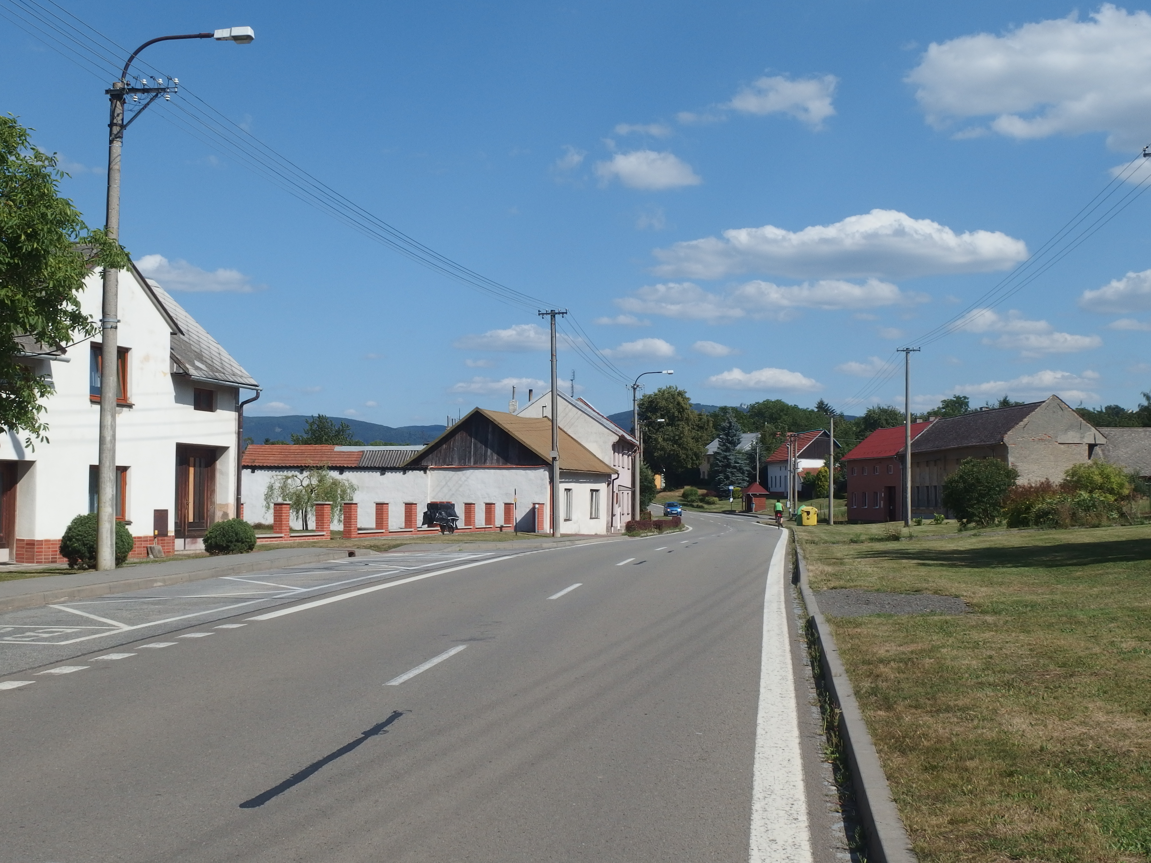 Lipová, Přerov District, Czech Republic.